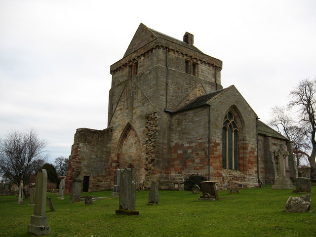 Crichton Kirk